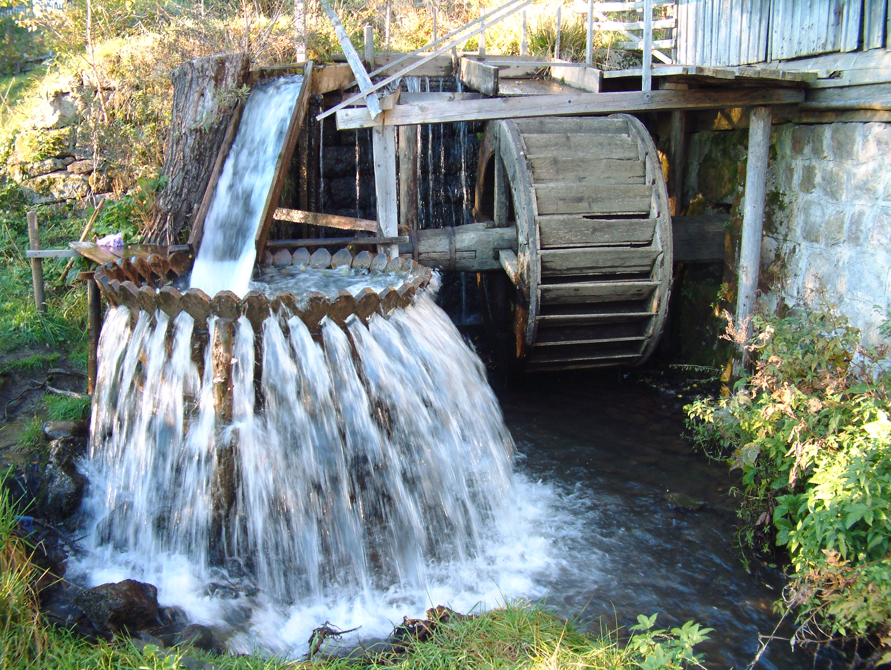 Water Mill in EszenyőVízimalom Eszenyőn (Gyergyóremete)